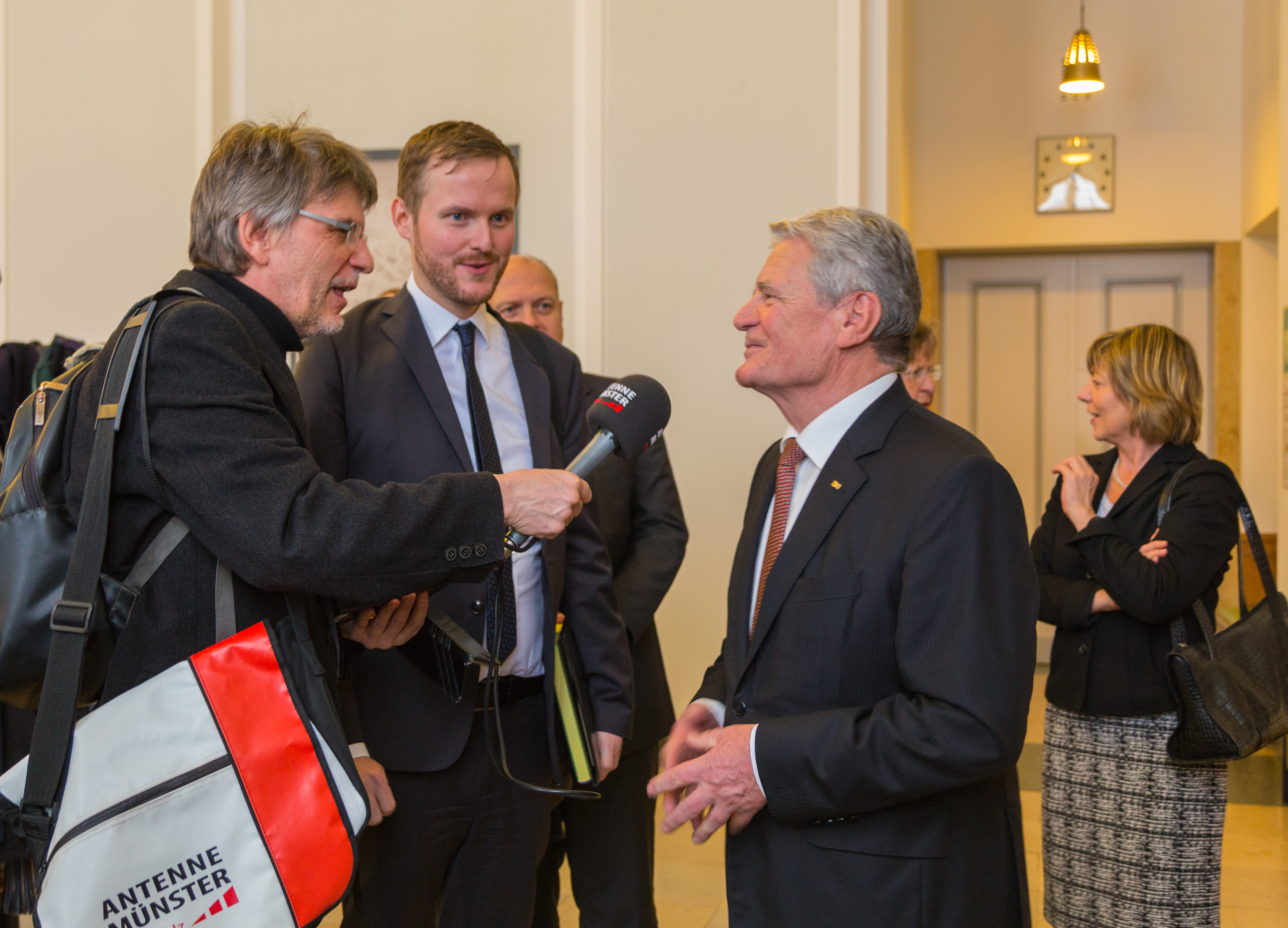 Honorary doctorate ceremony for Joachim Gauck, former President of the Federal Republic of Germany, at the auditorium of the University of Münster (Westfälische Wilhelms-Universität Münster) in Münster, North Rhine-Westphalia, Germany. Joachim Gauck was awarded an honorary doctorate (Dr. h.c. theol.) by the Faculty of Protestant Theology of the University. Before the ceremony Joachim Gauck (right) gives a short interview to Matthias Menne, chief reporter of Antenne Münster.